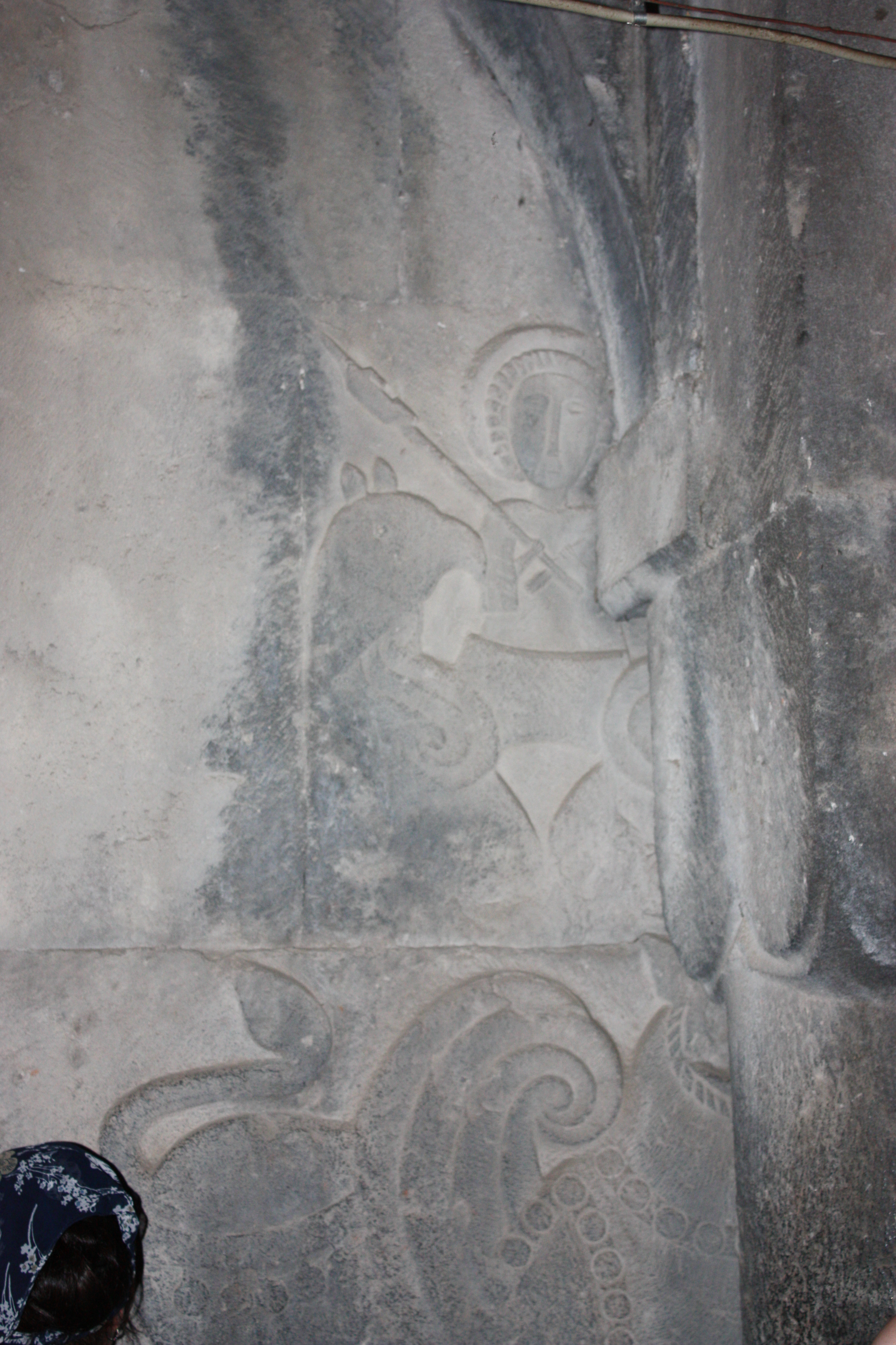 The bas relief of the aerial flight of Alexander the Great[1] in Khakhuli, Historical Tao-Klarjeti Georgian Kingdom, nowadays Turkey.